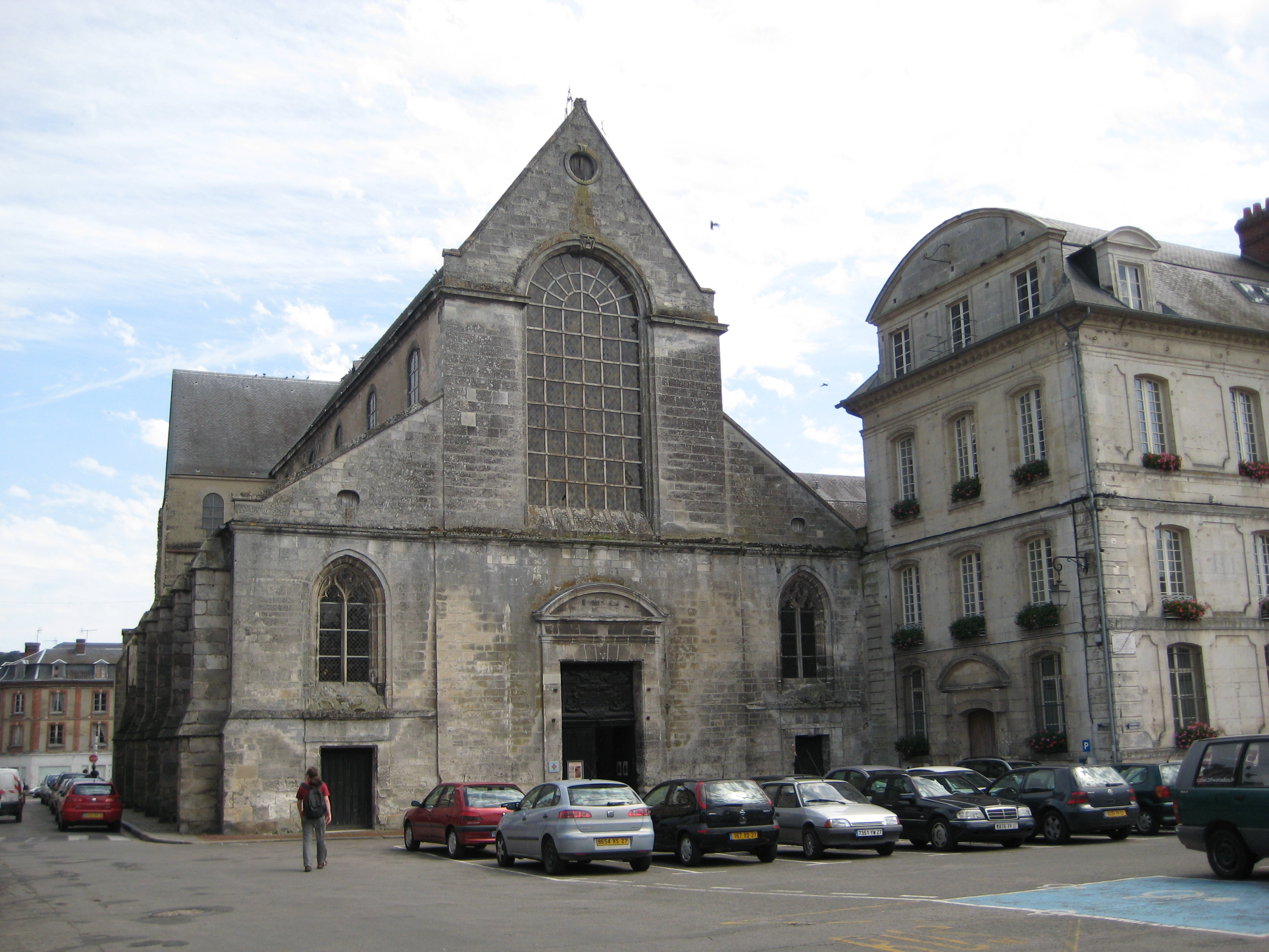 Front view of the Notre-Dame abbey in Bernay (Eure)